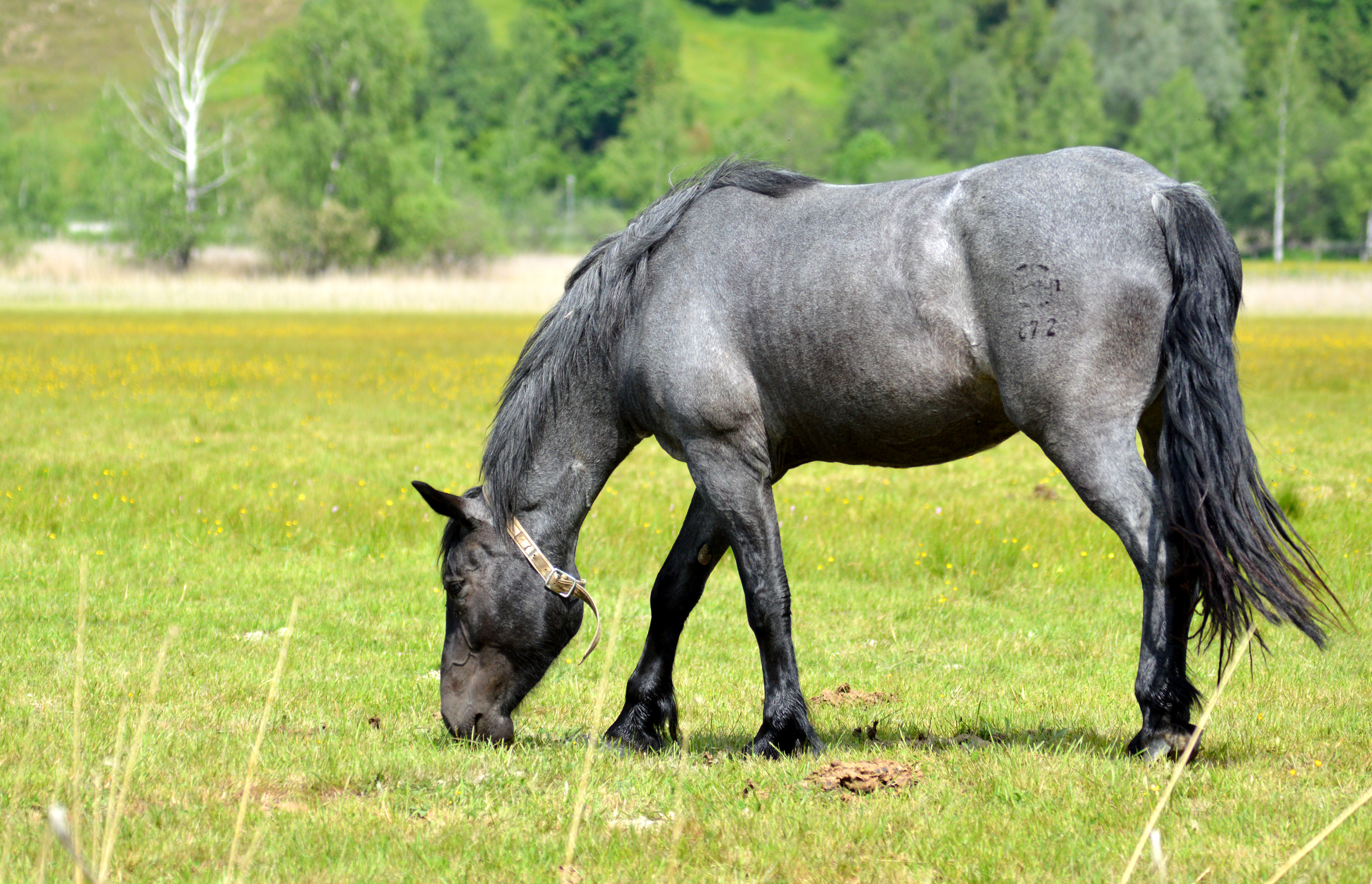 Noriker horse, grey colored white horse, female, at Zeller See Nature Resort, Salzburg (state), Austria.